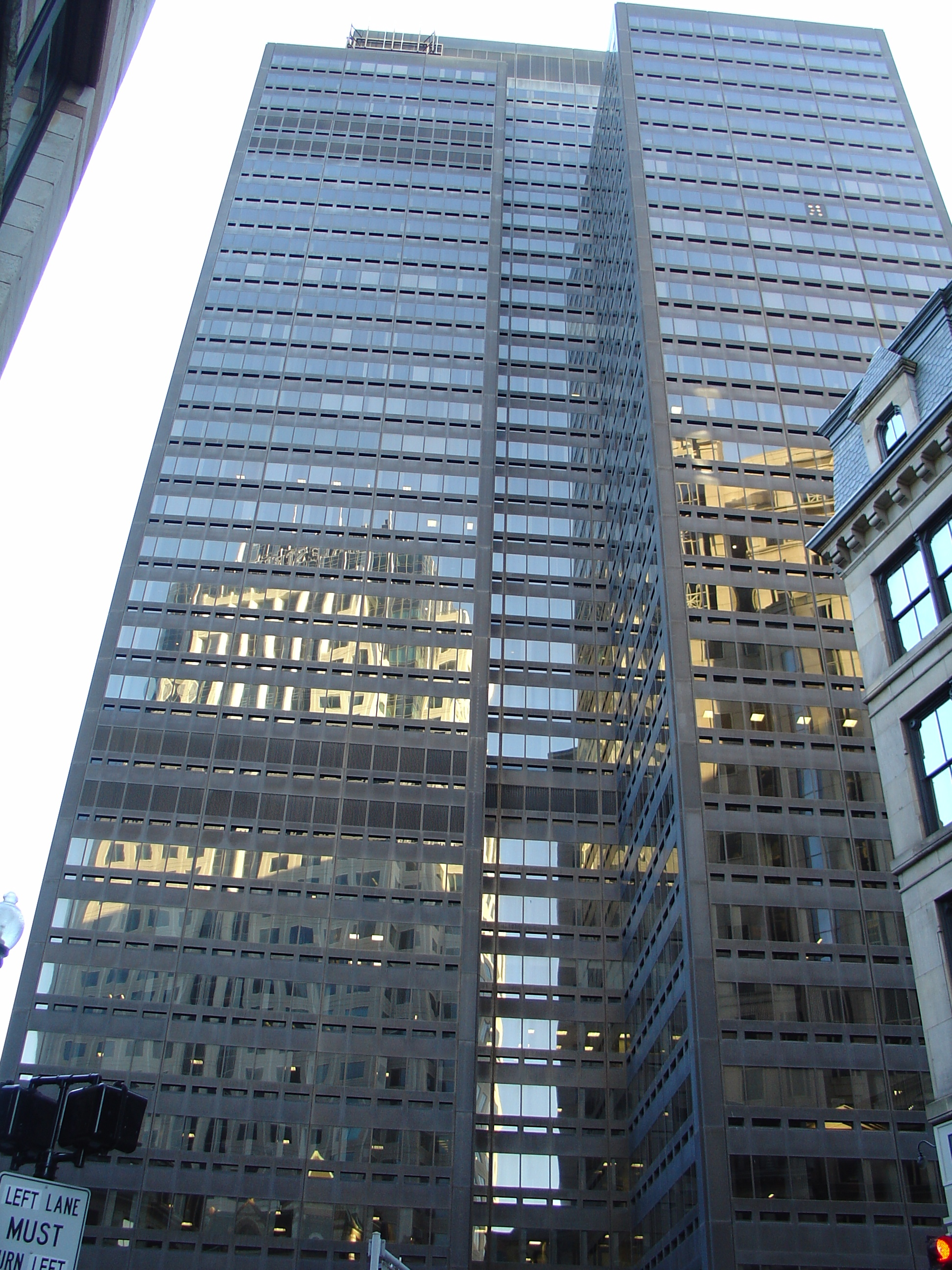 Please hang on until I provide summary information. I'm still uploading. Solarapex 21:52, 5 August 2007 (UTC)